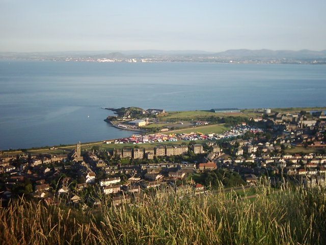 Burntisland from the top of The Binn.